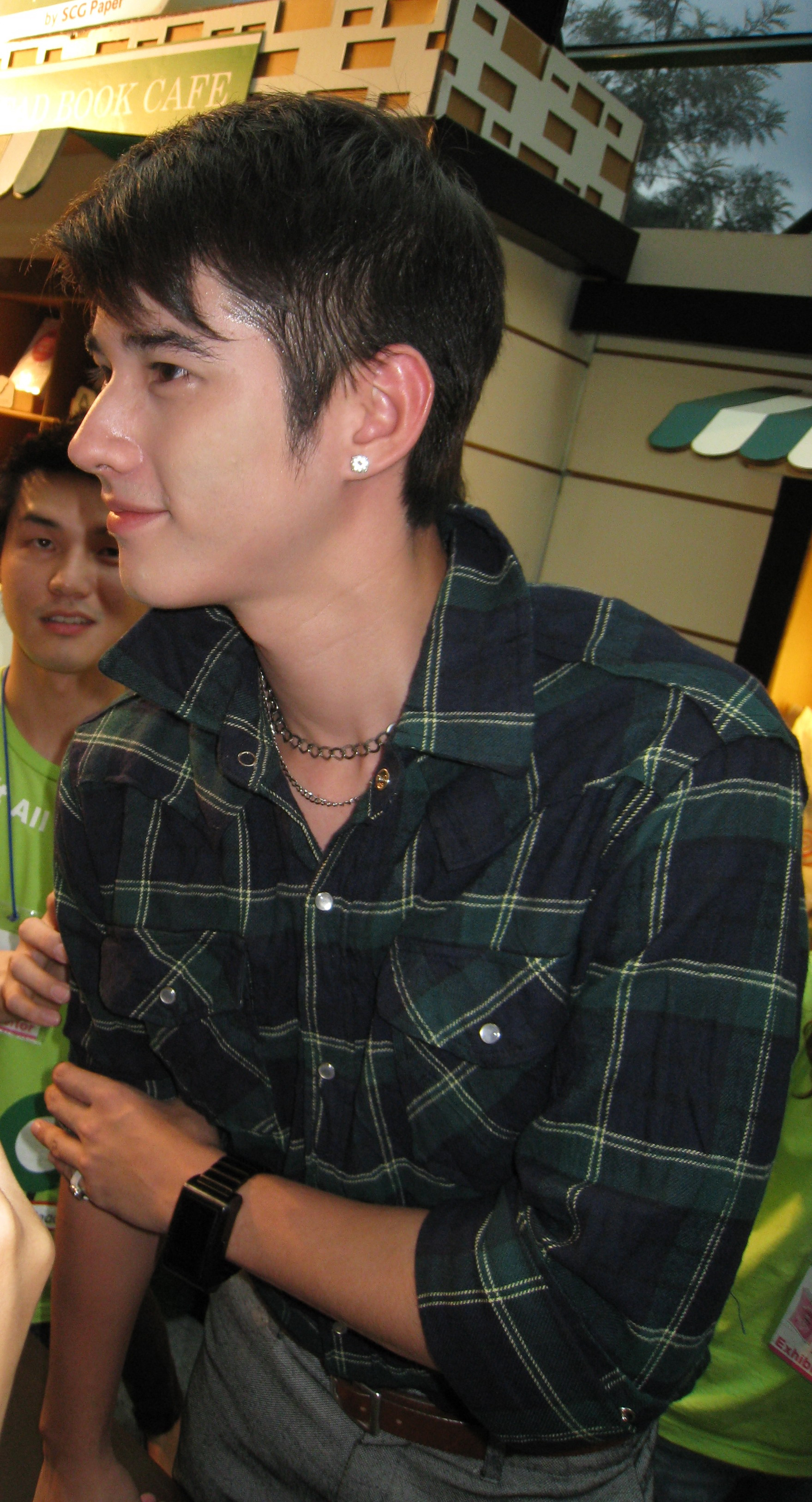 Mario Maurer at Book expo 2008